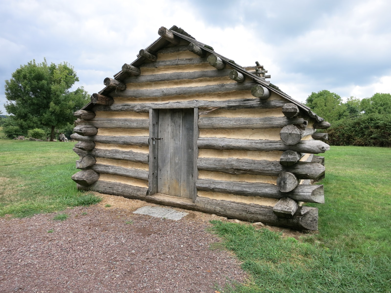 Photo shows a replica hut at Valley Forge National Park, Pennsylvania. It is located along with several other huts on North Outer Line Drive.